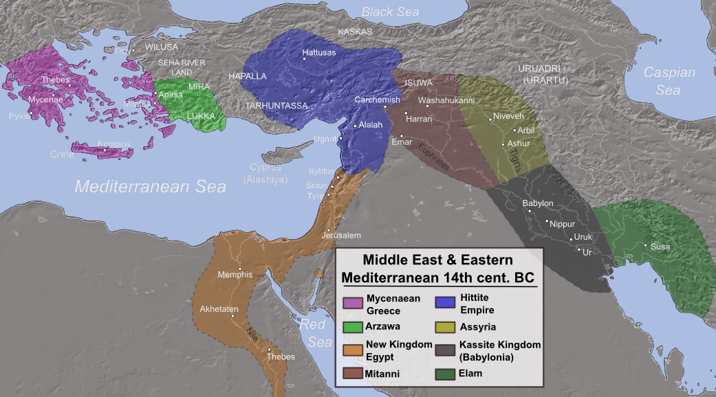 Eastern Mediterranean and Middle East in 14th century (including Amarna period)